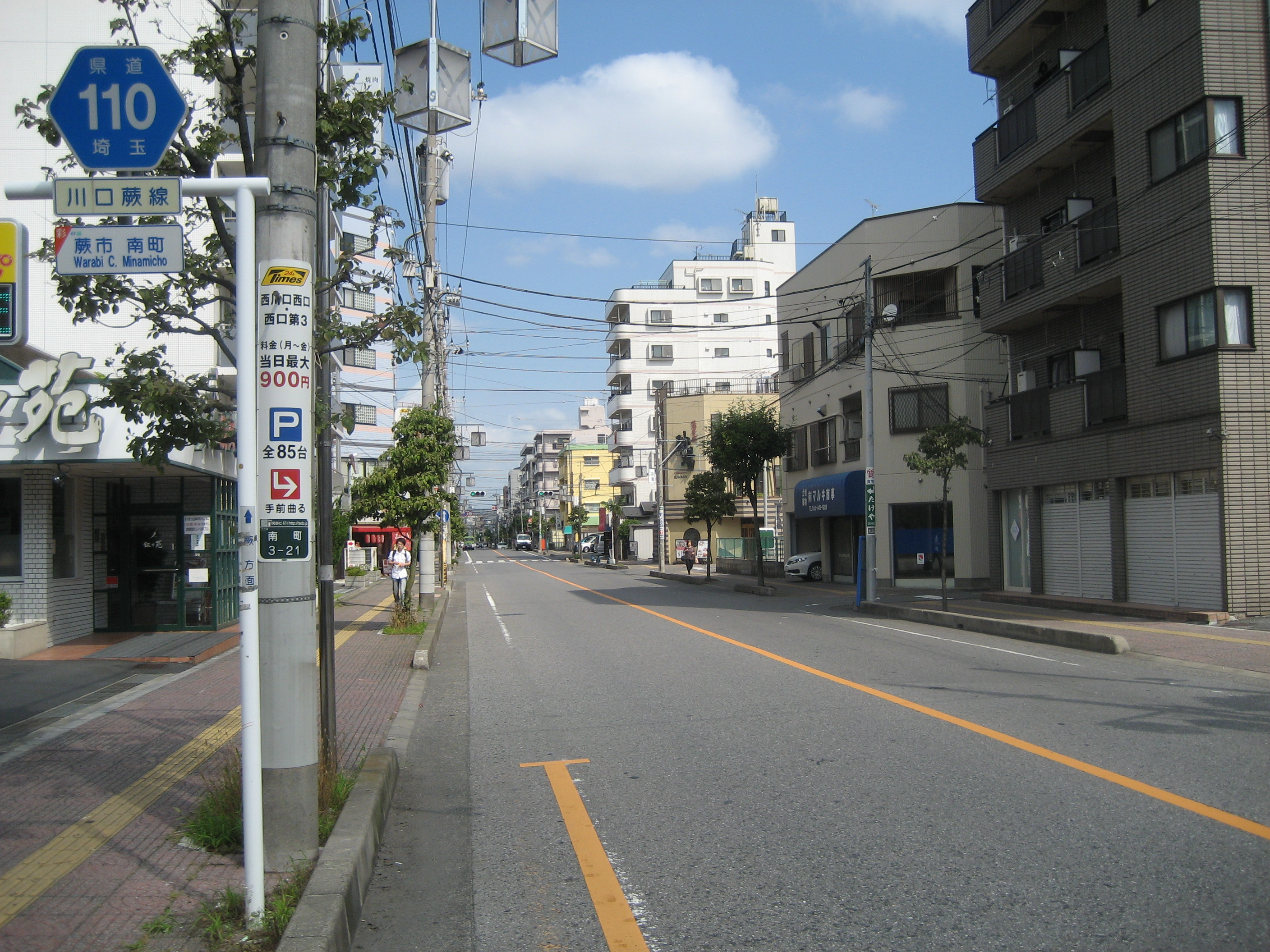 The Saitama Prefectural Road Route 110 in Minamicho, Warabi City